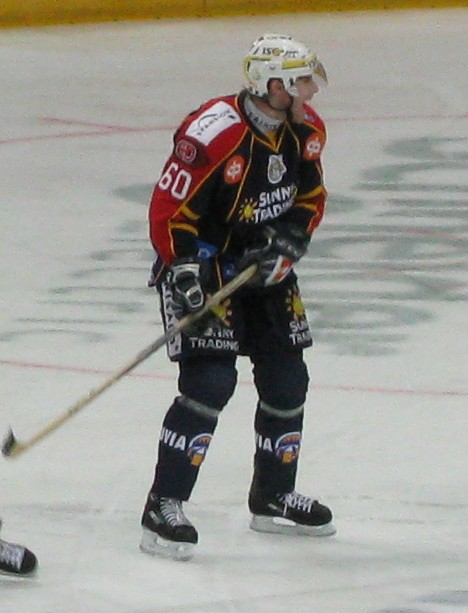 Tom Koivisto